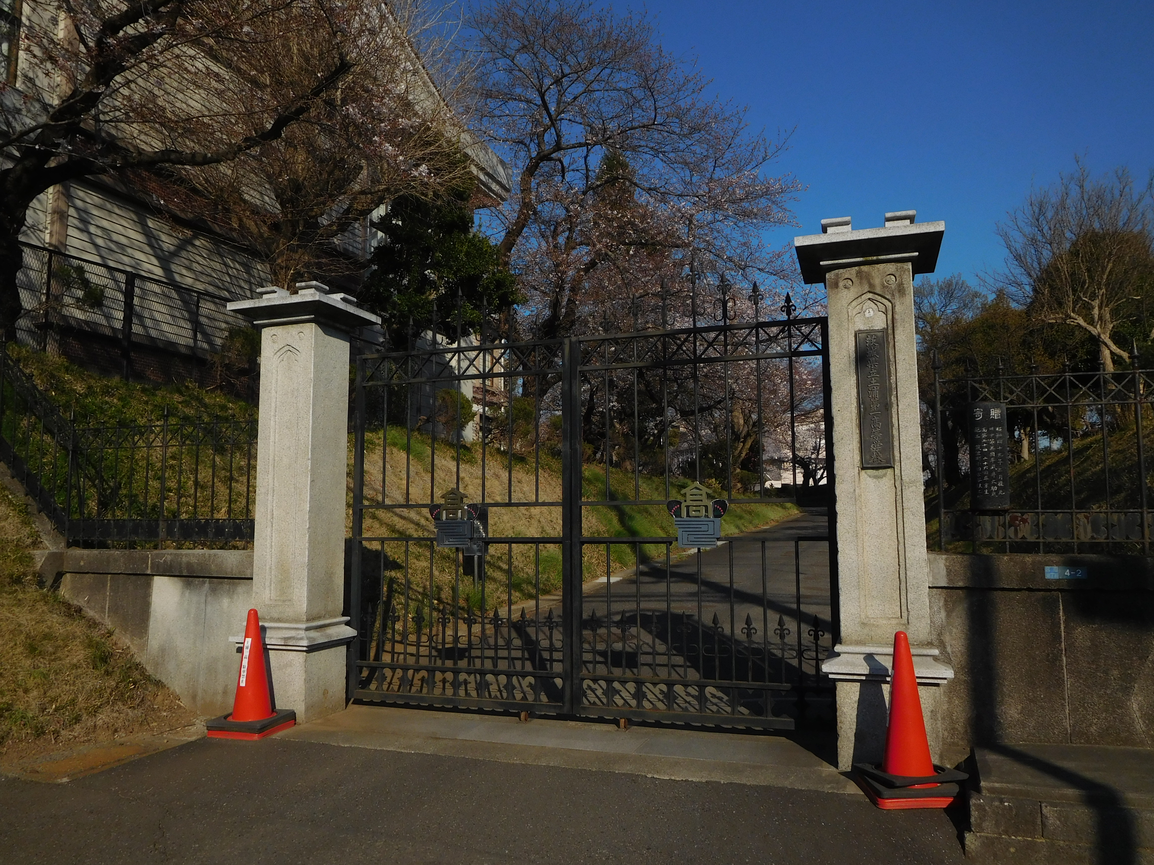 This is Ibaraki prefectural Tsuchiura First High School in Tsuchiura, Ibaraki, Japan.